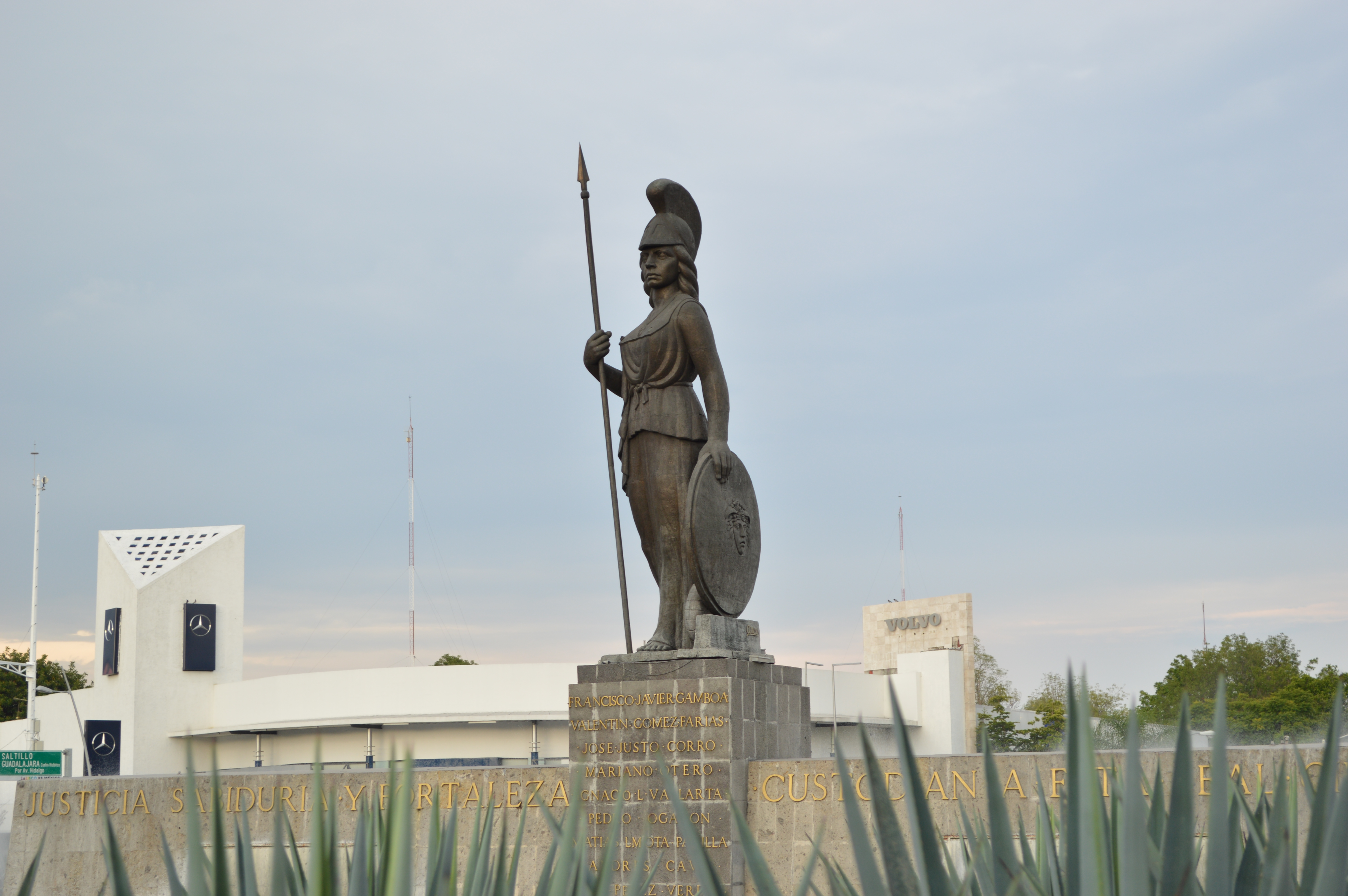 "La Minerva" sculpture in Guadalajara, Jalisco, Mexico. It represents the Roman godess Minerva.